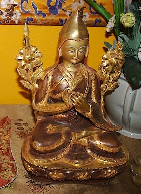 Medicine Buddha and Tsongkhapa statues — Sera Monastery, in Lhasa, Tibet.